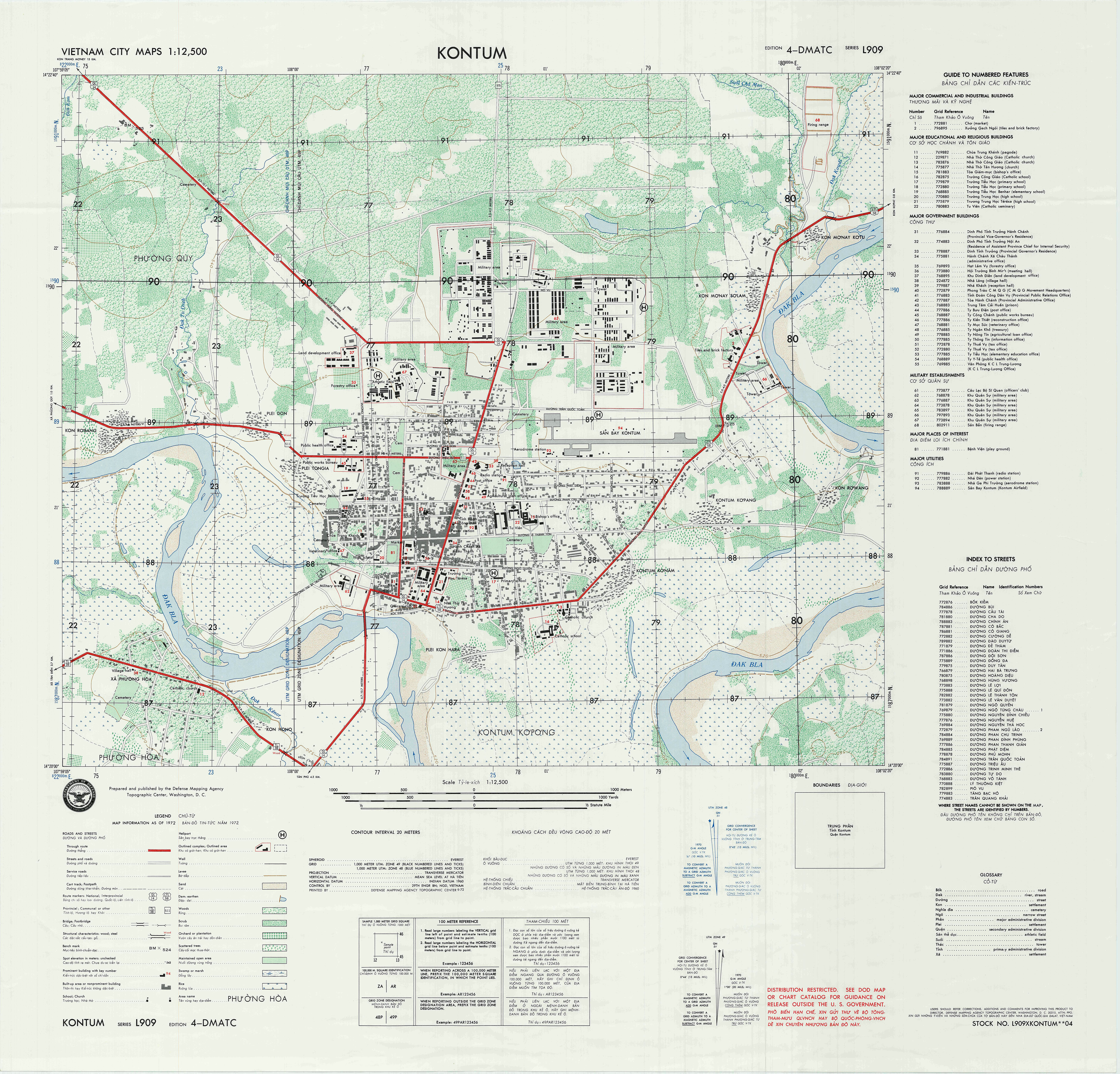 Map of Kontum city, Vietnam 1972